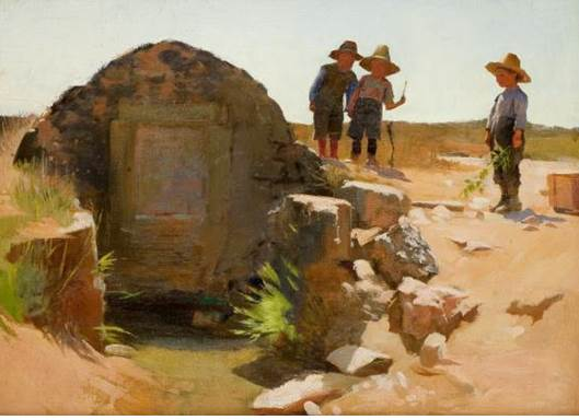 The Source